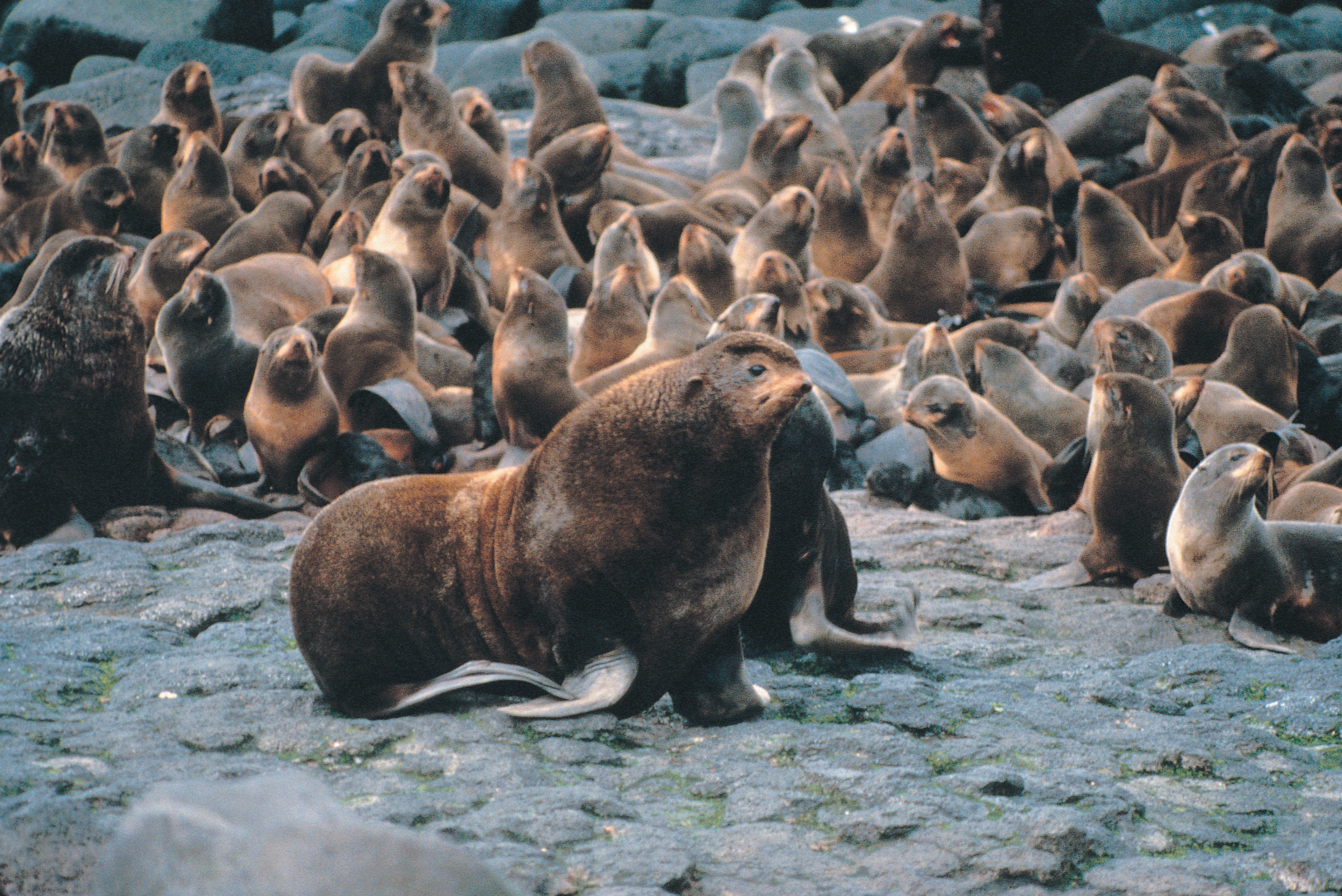 Northern fur seal breeding colony. Male and harem. Male northern fur seal (foreground) and harem.